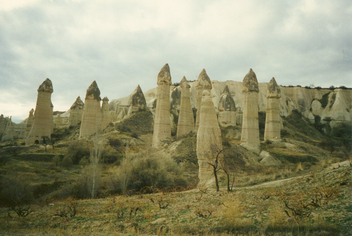 Fairy Chimney Rock Formations.